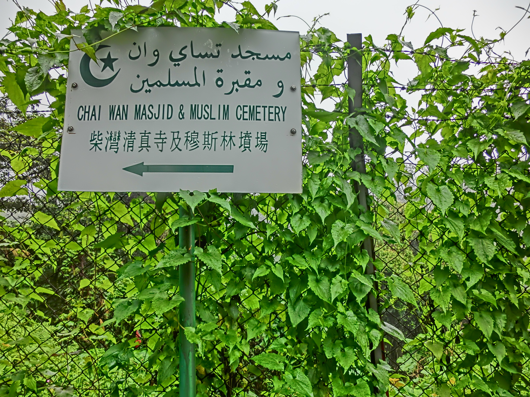 Cape Collinson Masjid and Muslim Cemetery sign, Cape Collinson Road, Chai Wan, Hong Kong